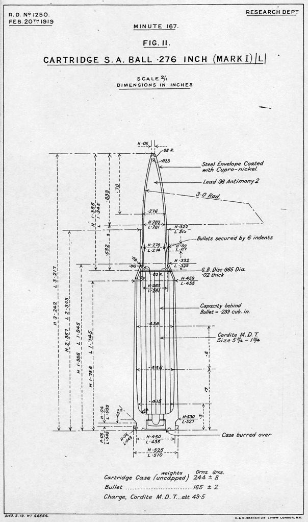 L